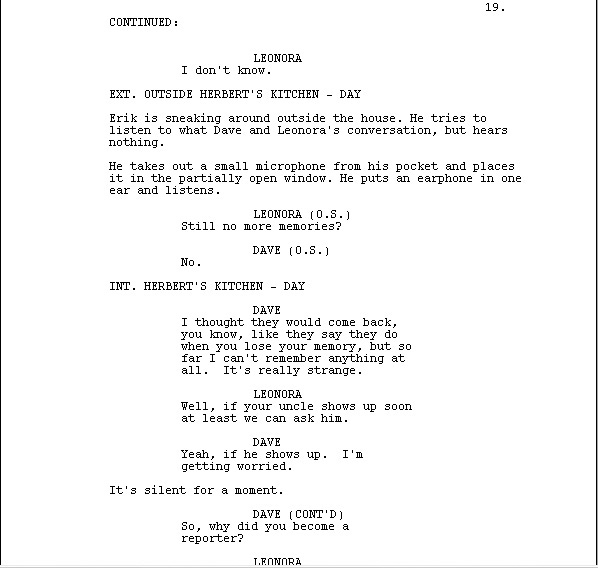 Screenplay sample, showing dialogue and action descriptions. "O.S."=off screen. Written in Final Draft.